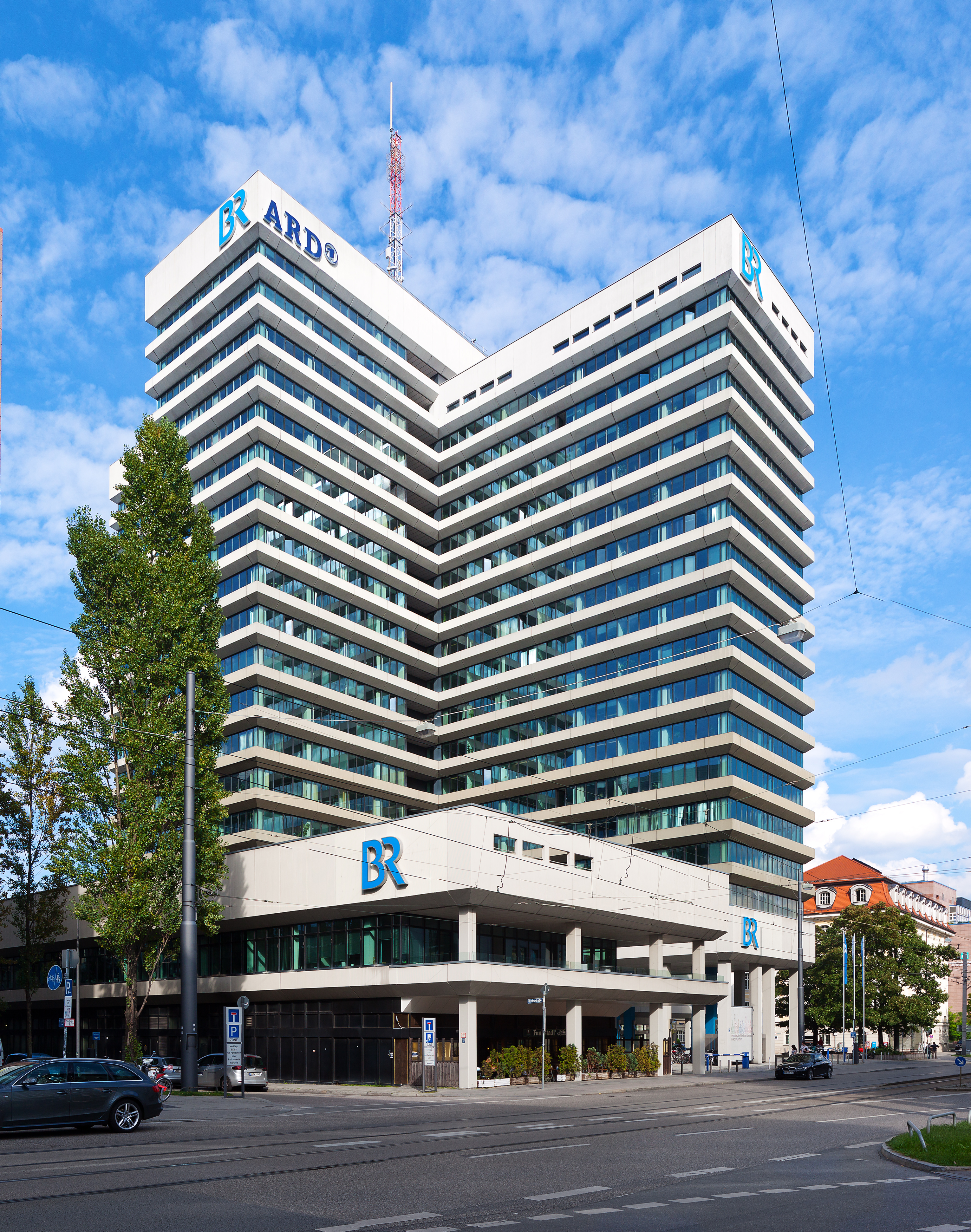 The BR main broadcasting center in Munich, Arnulfstraße